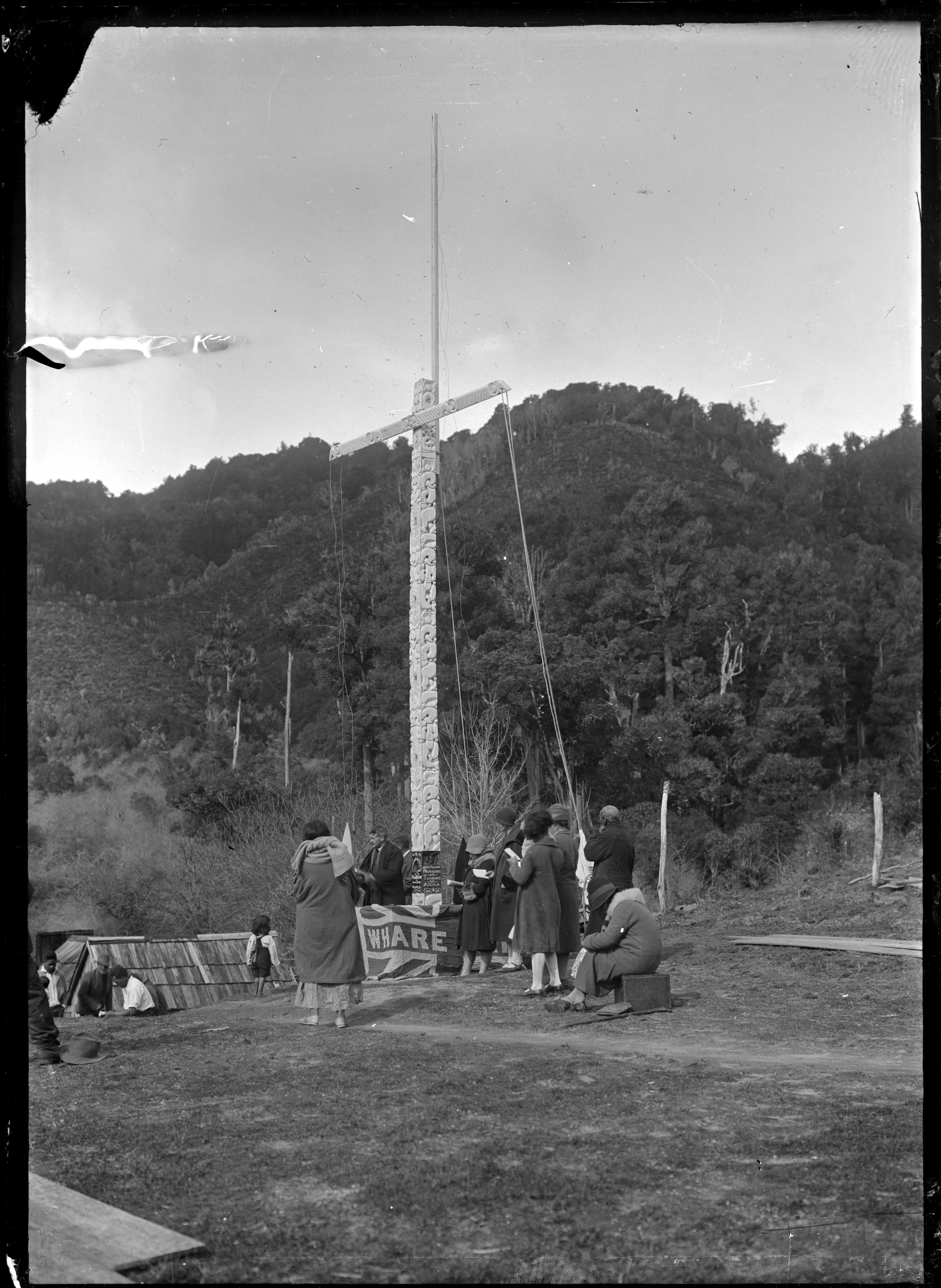 Dedication ceremony of three flags at Waireporepo Pa, Te Whaiti. Reverend John George Laughton is officiating. Unidentified people are either sitting on the ground or standing near where the ceremony is taking place, and the flags have not yet been raised. There is a placard at the bottom of the carved flag pole part of which is visible in this image. It reads "Kui mau kite. Whakapono kite. Tumanako kite. Aroha". Photograph taken by Albert Percy Godber on Tuesday 30 September 1930. The date is given as October 1930 in Godber's index held in Photographic Archives. For an image taken later in the proceedings see APG-1669-1/2.